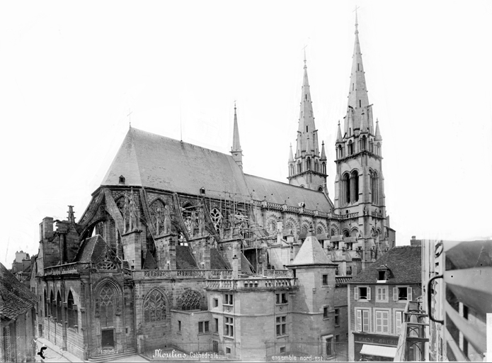 Moulins cathedral